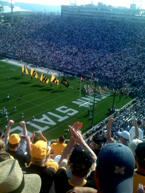 Iowa football players take the field at Penn State. Picture taken by Steve Polyak at Flickr.